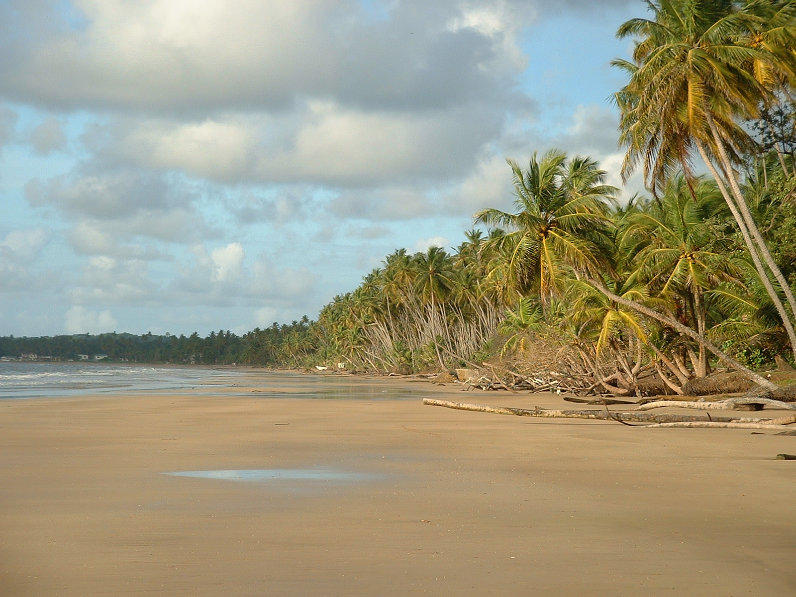 Mayaro Beach -looking south